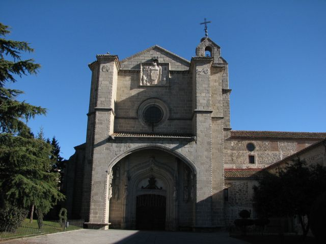 El Real Monasterio de Santo Tomas (Ávila)